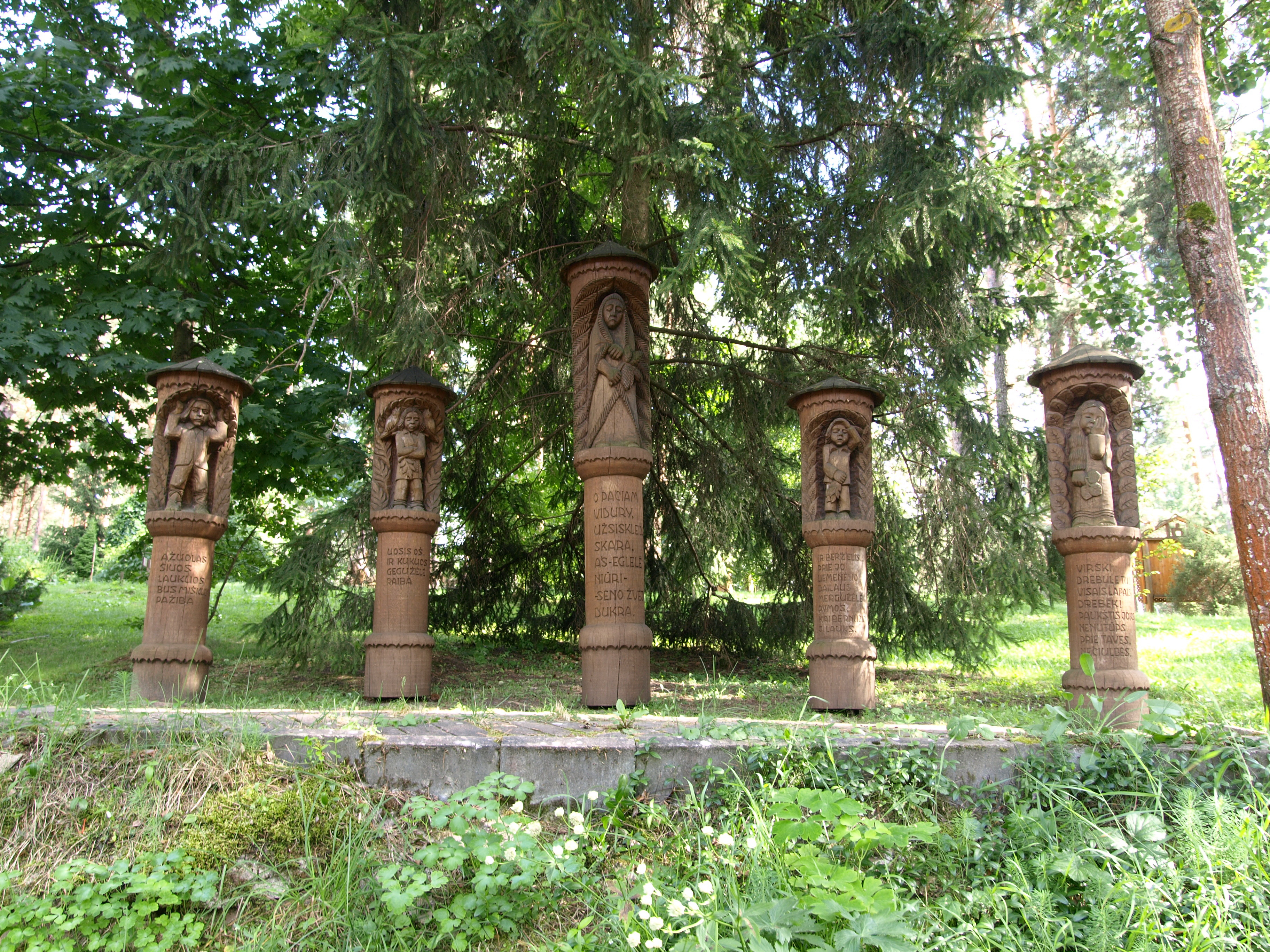 Decorative wooden statues depicting Egle (in the center) and her children at the "Forest Echo" (Lithuanian: Girios Aidas) forestry museum in Druskininkai town, Lithuania